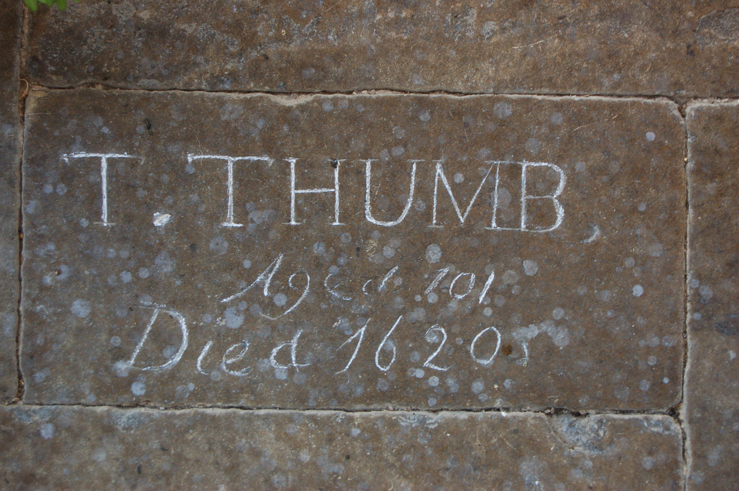 Plaque marking the grave of Tom Thumb in The Collegiate Holy Trinity Church, Tattershall, Lincolnshire